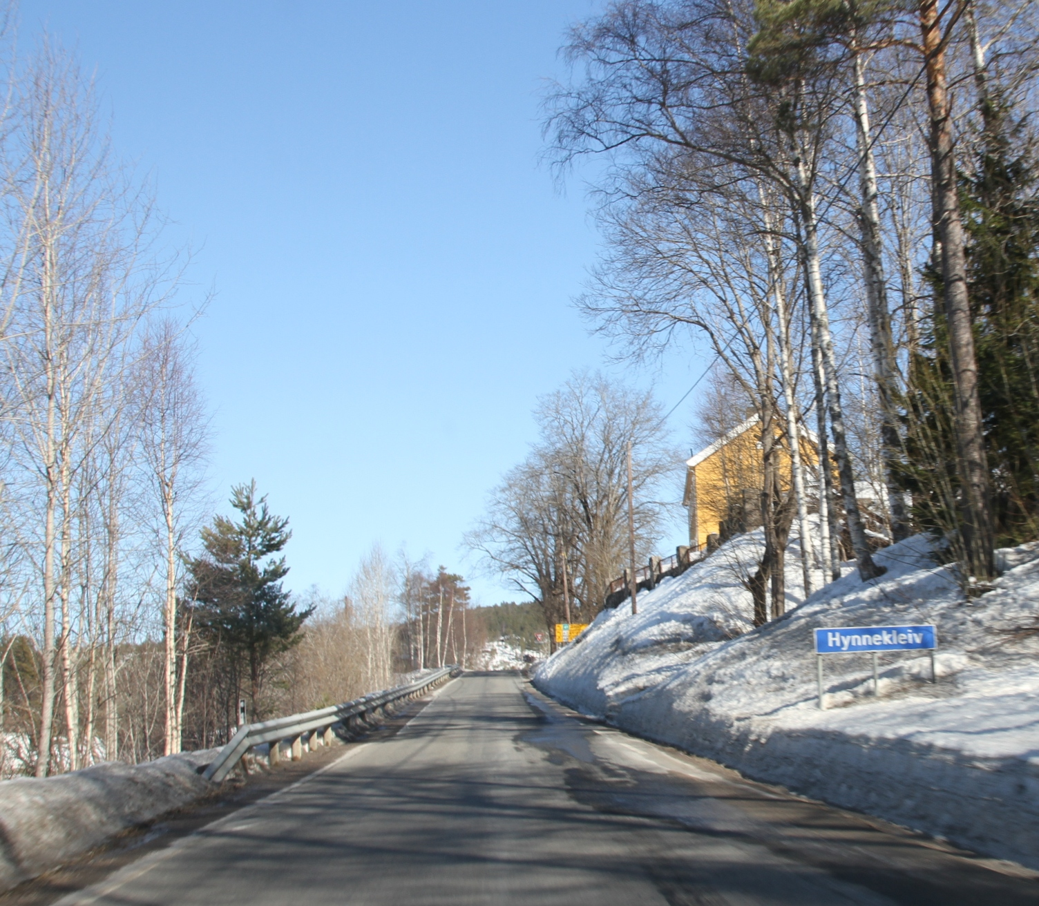 Image from along the Highway 41, parallel to the Tovdalselva river, in south-central part of Froland municipality, Aust-Agder county (Norway)